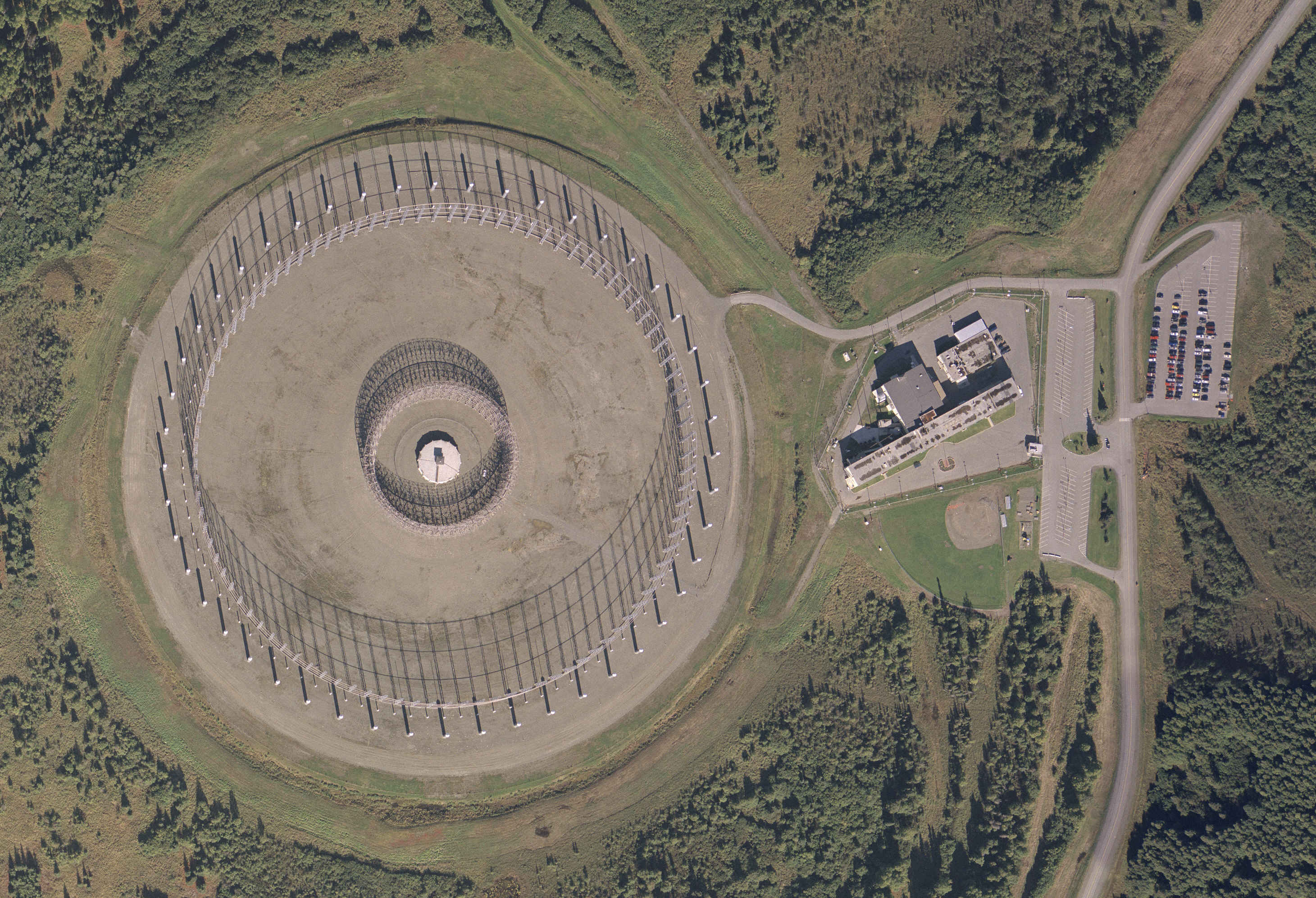 Overhead shot of AN/FLR-9 at Elmendorf AFB, Alaska